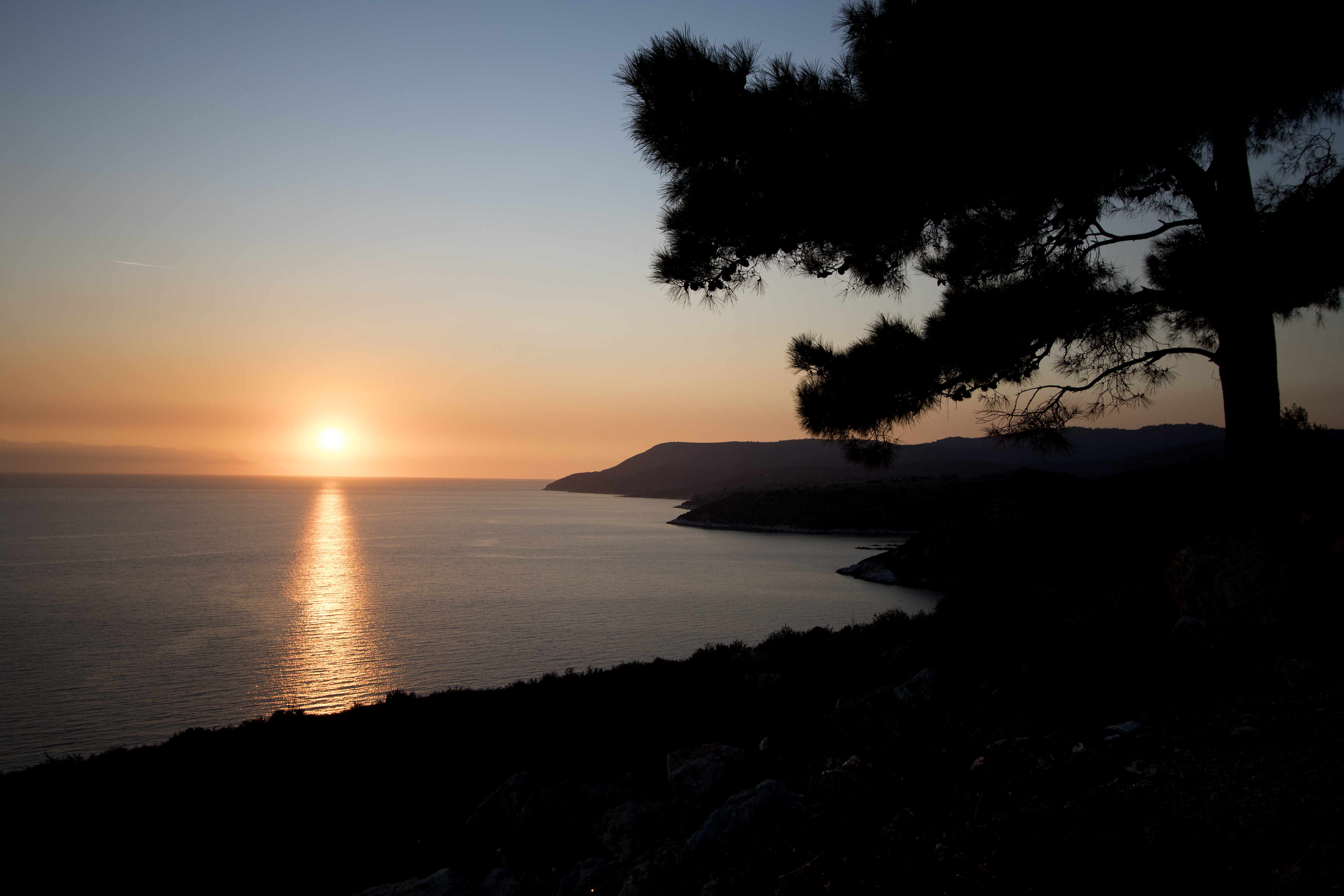 Sunset view from the Seferihisar-Ephesus Road, İzmir - Turkey.